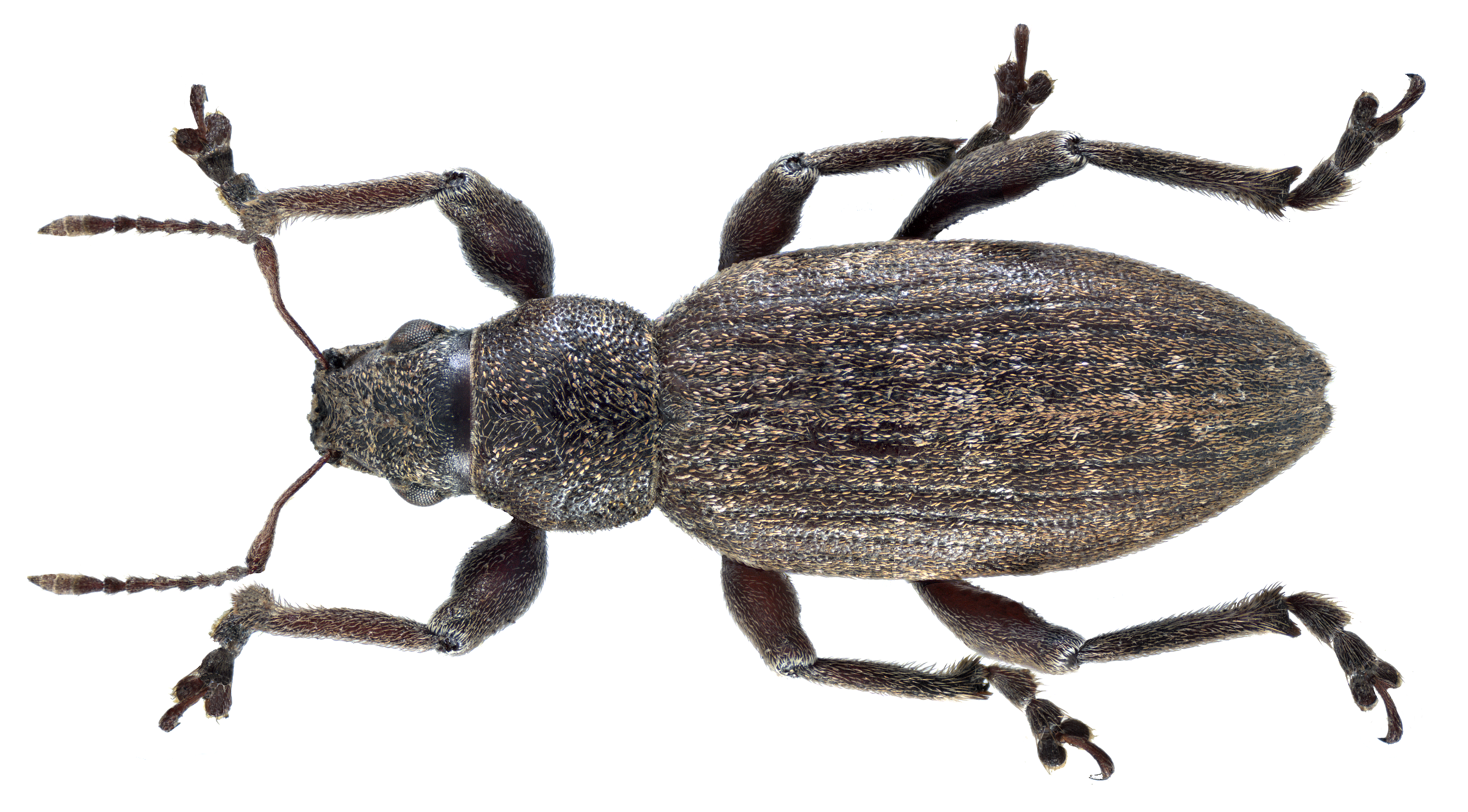 Family: Curculionidae Size: 9,2 mm (7-10,5 mm) Origin: Northern Europe and Central Europe to Central Italy and northern Balkans Ecology: lives on Pinus Location: Germany, Bavaria, Upper Franconia, Kulmbach leg.det. U.Schmidt, 23.III.1972 Photo: U.Schmidt, 2013